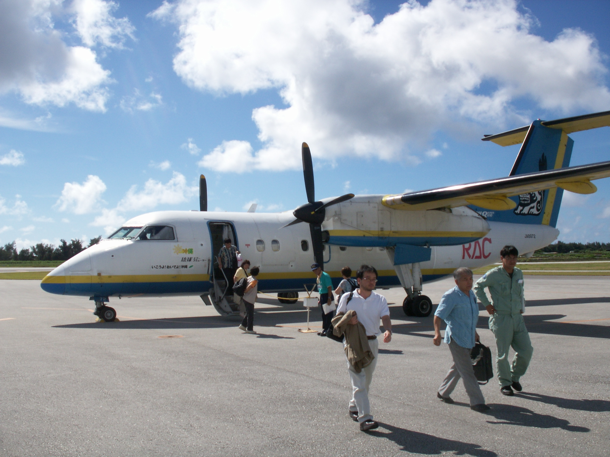 JA8972, a de Havilland Canada DHC-8-103Q Dash 8 of Ryukyu Air Commuter at Minami-Daito Airport in Minami Daito, Shimajiri District, Okinawa Prefecture, Japan.